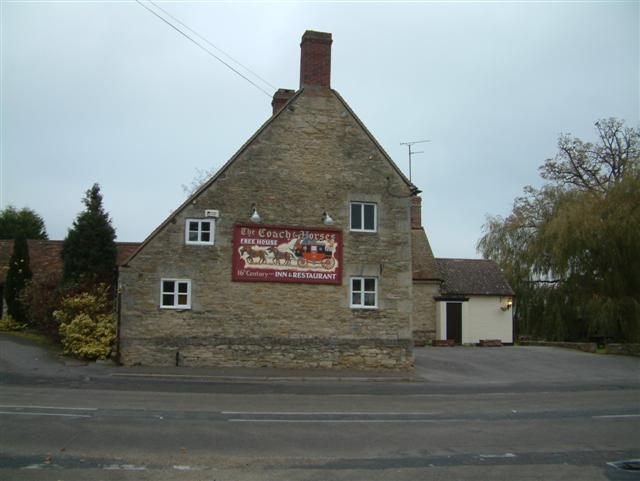 The Coach & Horses, Chiselhampton.